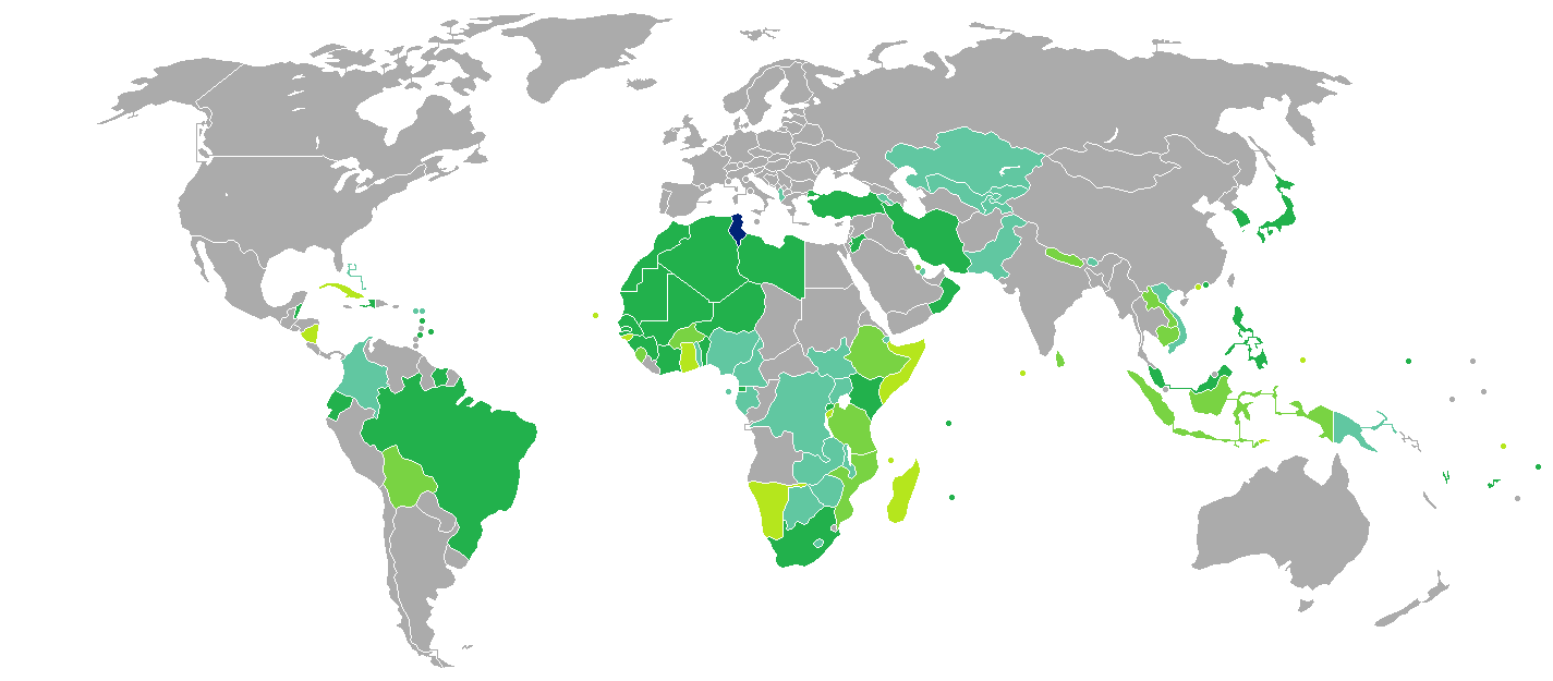 Visa requirements for Tunisian citizens Tunisia Visa free access Visa on arrival eVisa Visa available both on arrival or online Visa required